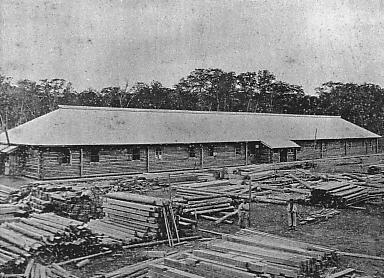 Kabato Shujikan (Kabato Prison) in the Meiji era